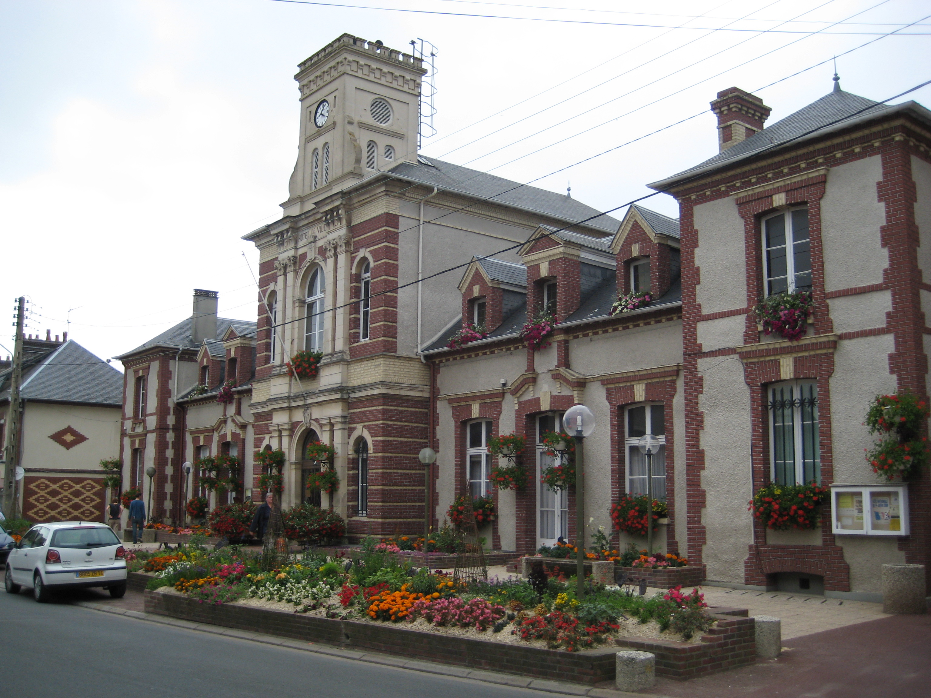 Town hall of Dives-sur-Mer